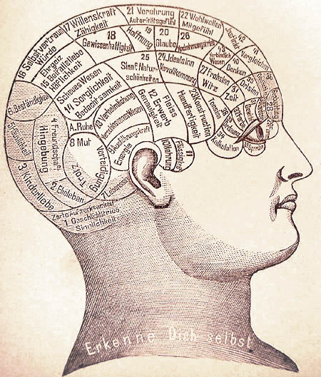 Phrenologie (smaller edited JPG version) Test Version - Please DO NOT DELETE within 48hrs from any last change—Wolfgang 13:35, 22 February 2006 (UTC)